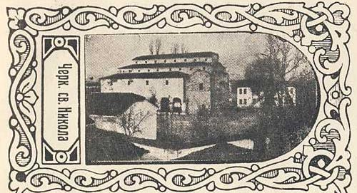 Sv. Prohor pictures from postcard of Kumanovo Charity Brotherhood Macedonia in Bulgaria